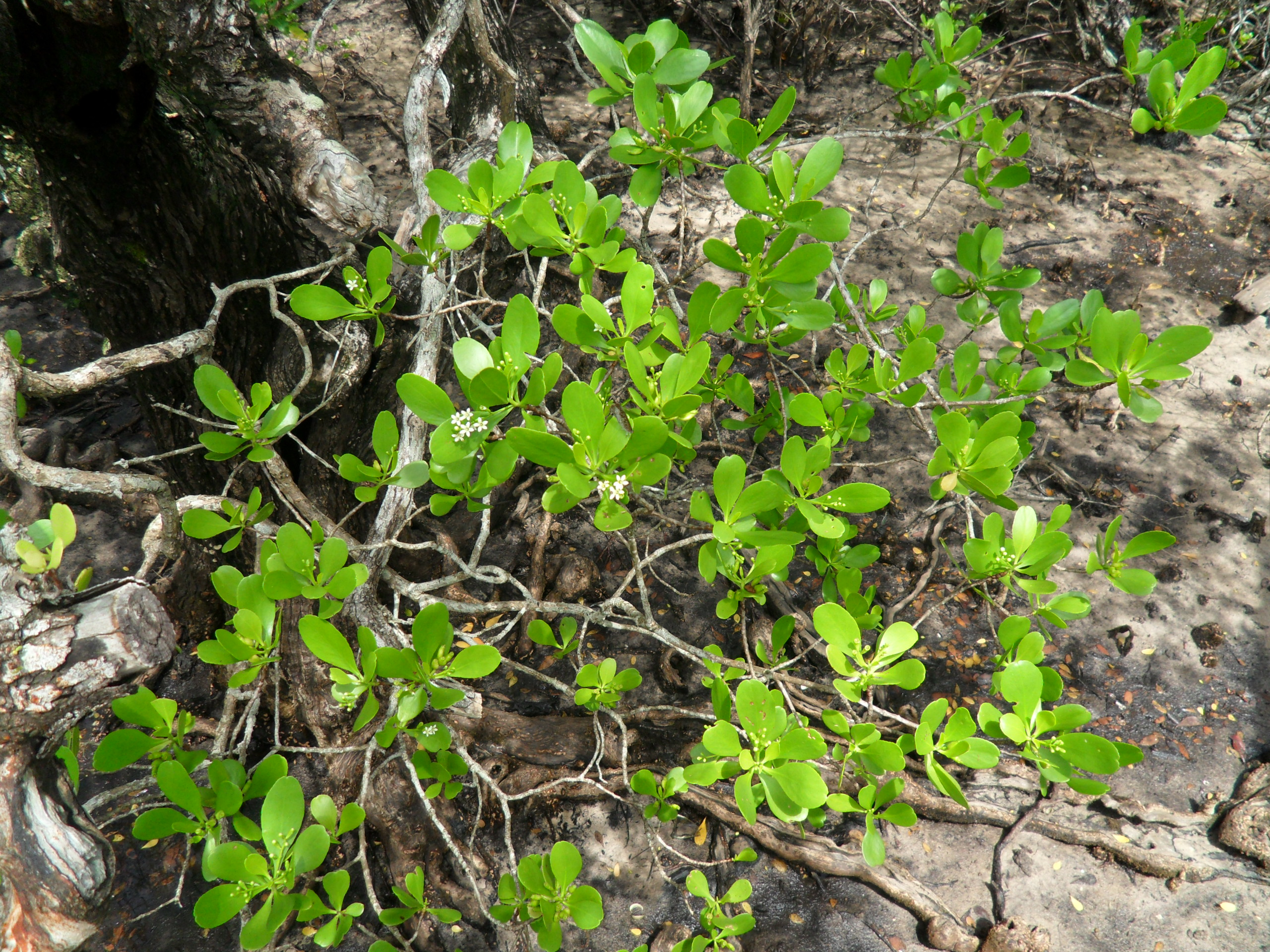 Lumnitzera racemosa (flowering) - Kung Krabaen, Chantaburi province, Thailand